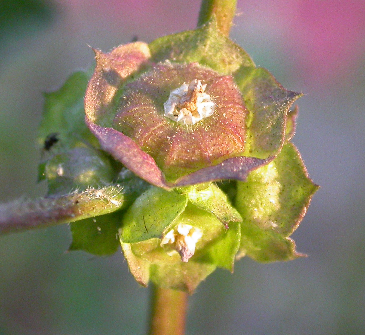 California. Species is an introduced weed.